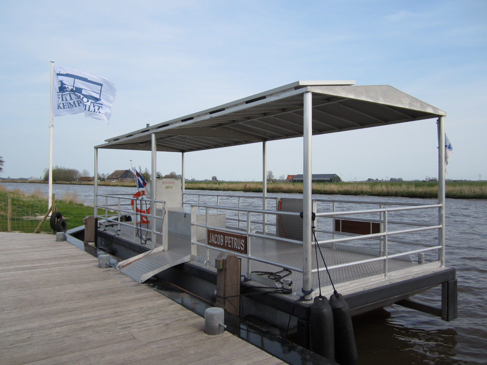 Hamlet Kingmatille, county Friesland, The Netherlands: Pedestrian ferry "Keimpetille" at canal "Van Harinxmakanaal".